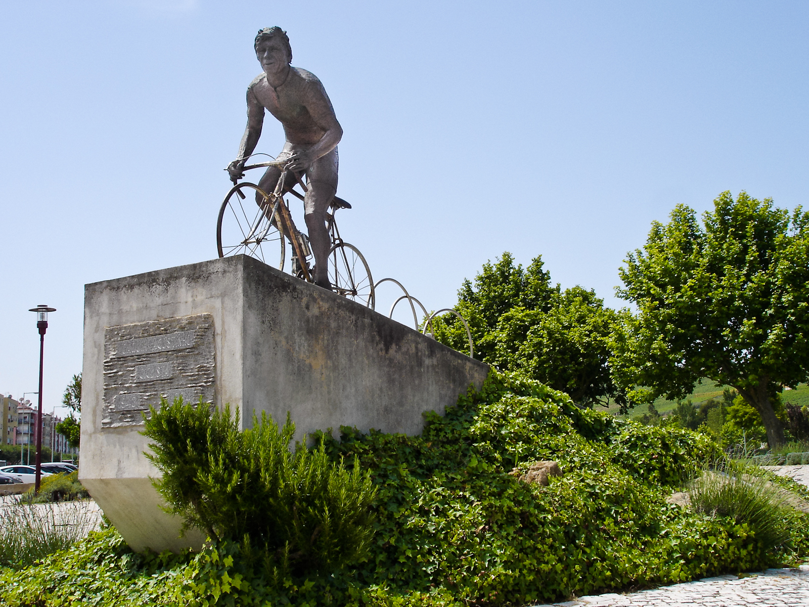 Memorial Statue of professional bicycle racer Joaquim-Agostinho in Torres Vedras, Portugal